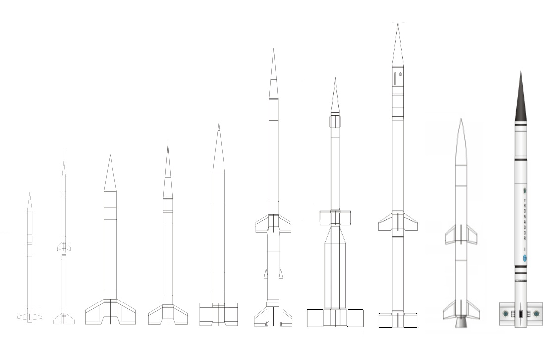 Argentinian sounding rockets shapes (not in scale).